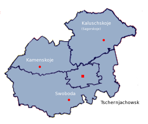 The administrational division of the Chernyakhovsky District in German transcription